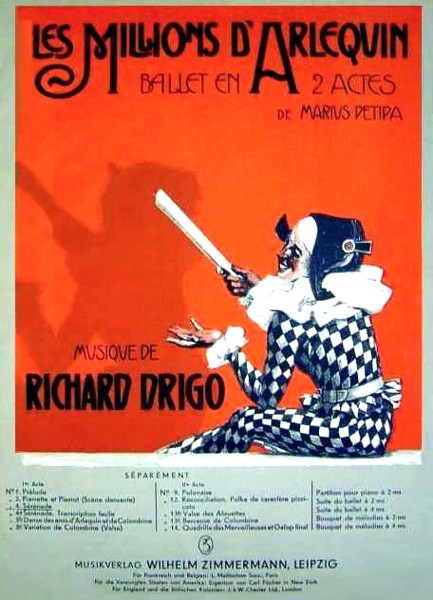 Frontispiece for the piano reduction of the composer Riccardo Drigo's (1846-1930) score for the ballet "Les Millions d'Arlequin" ("Harlequin's Millions") by the choreographer Marius Petipa (1818-1910).